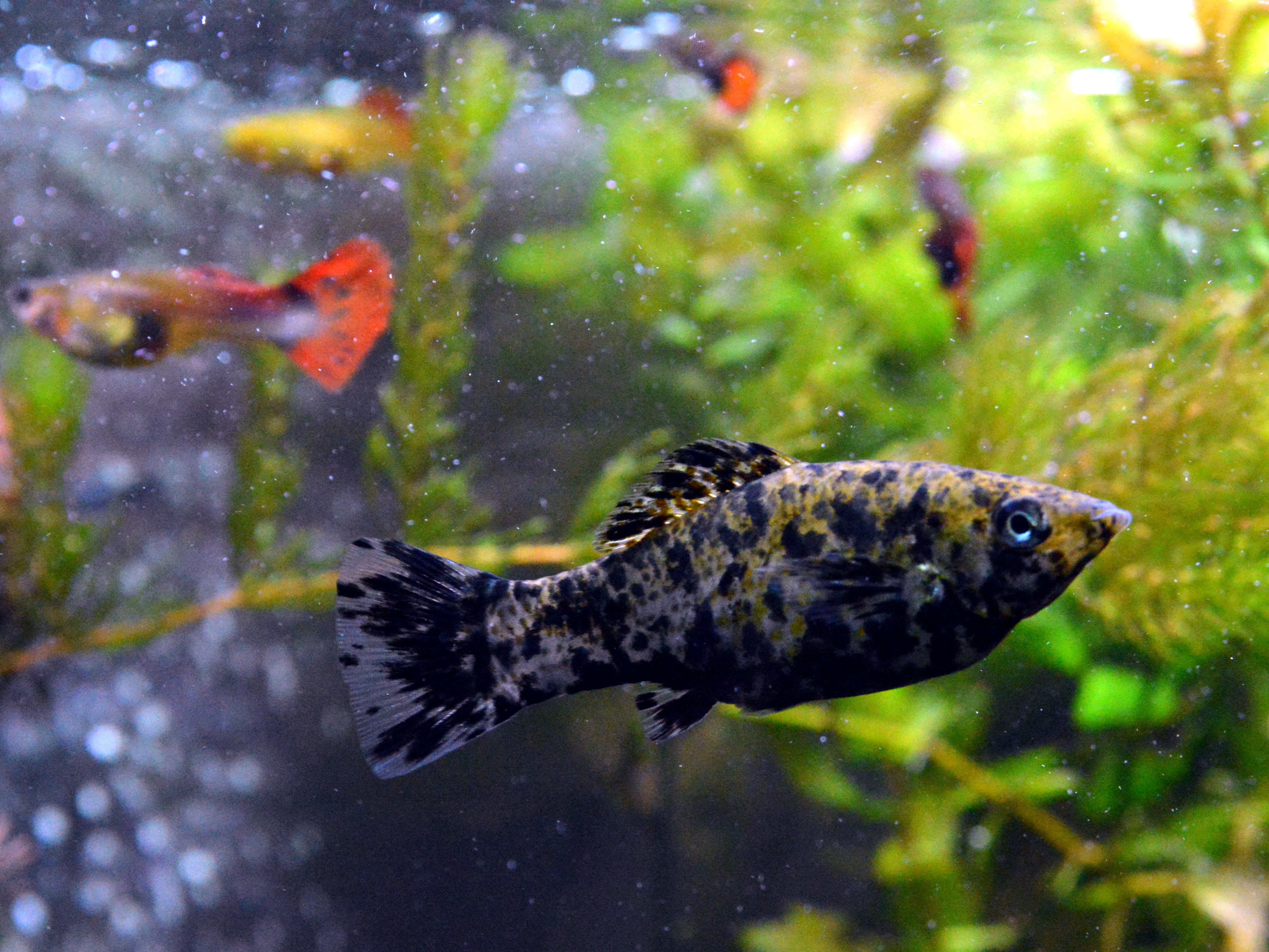 A female spotted molly fish, approximately 4 years old, in a freshwater planted tank.